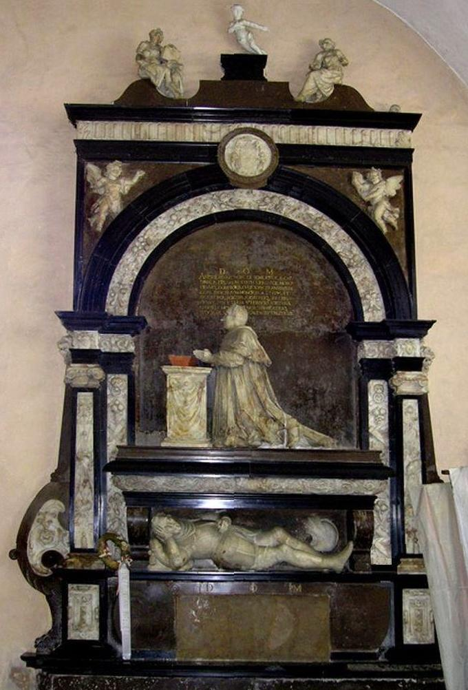 Tomb monument of Andrew Báthory and his brother Balthasar by Willem van den Blocke (1598). St. Andrew's Church in Barczewo.